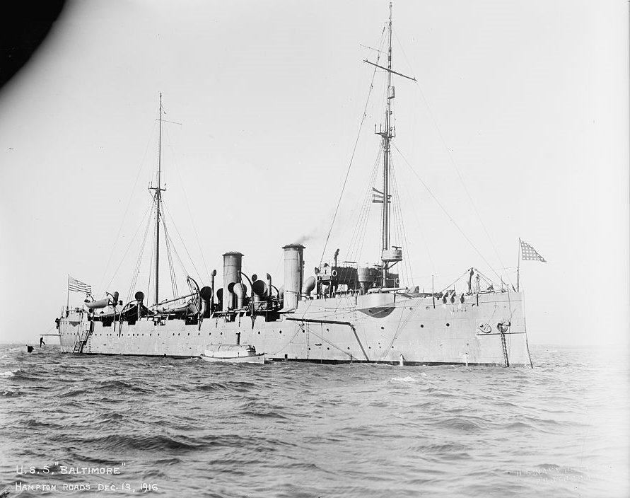 U.S.S. Baltimore, Hampton Roads, [Virginia], Dec 13, 1916